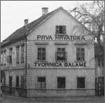 Gavrilovic-petrinja